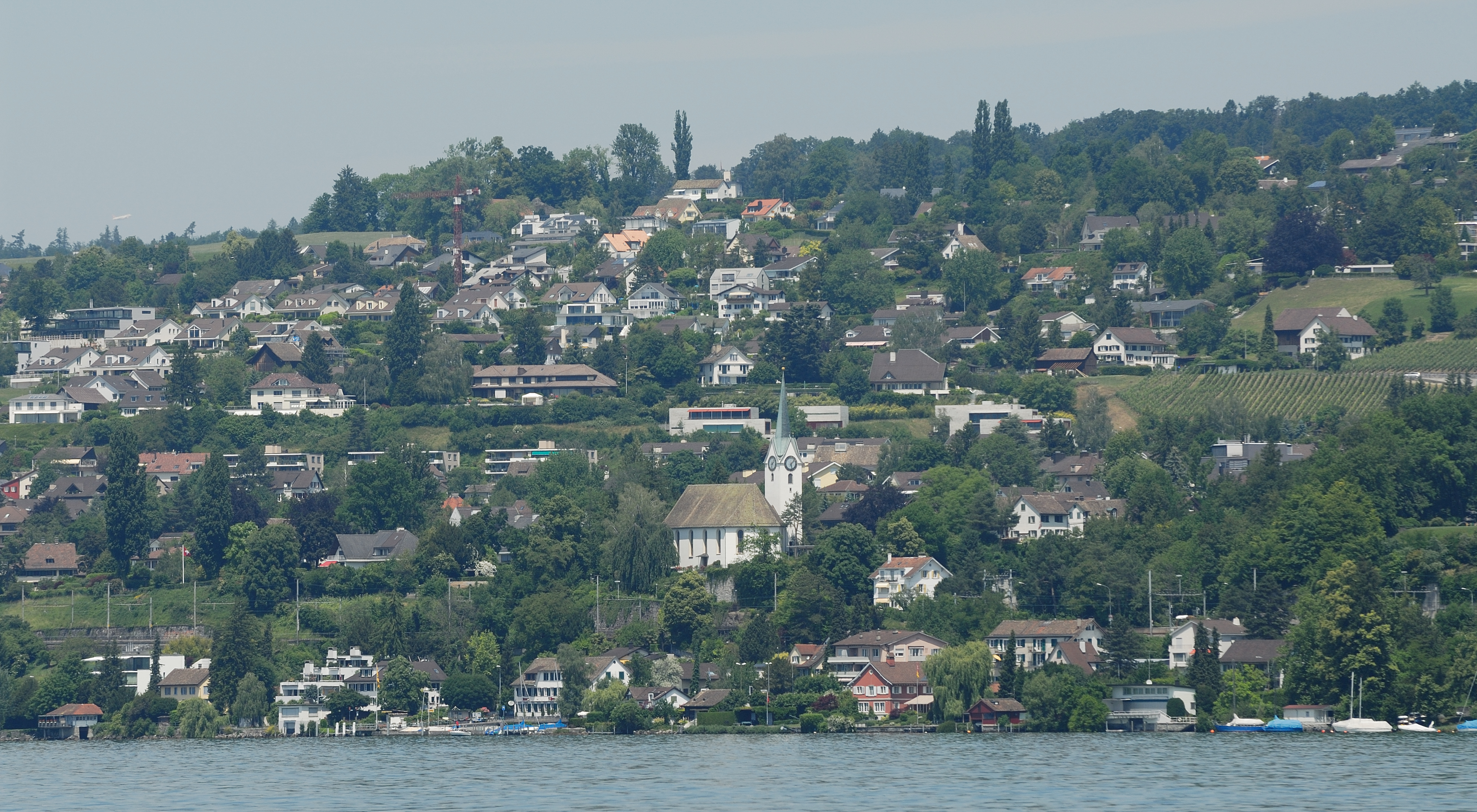 View of Herrliberg from Lake Zürich.